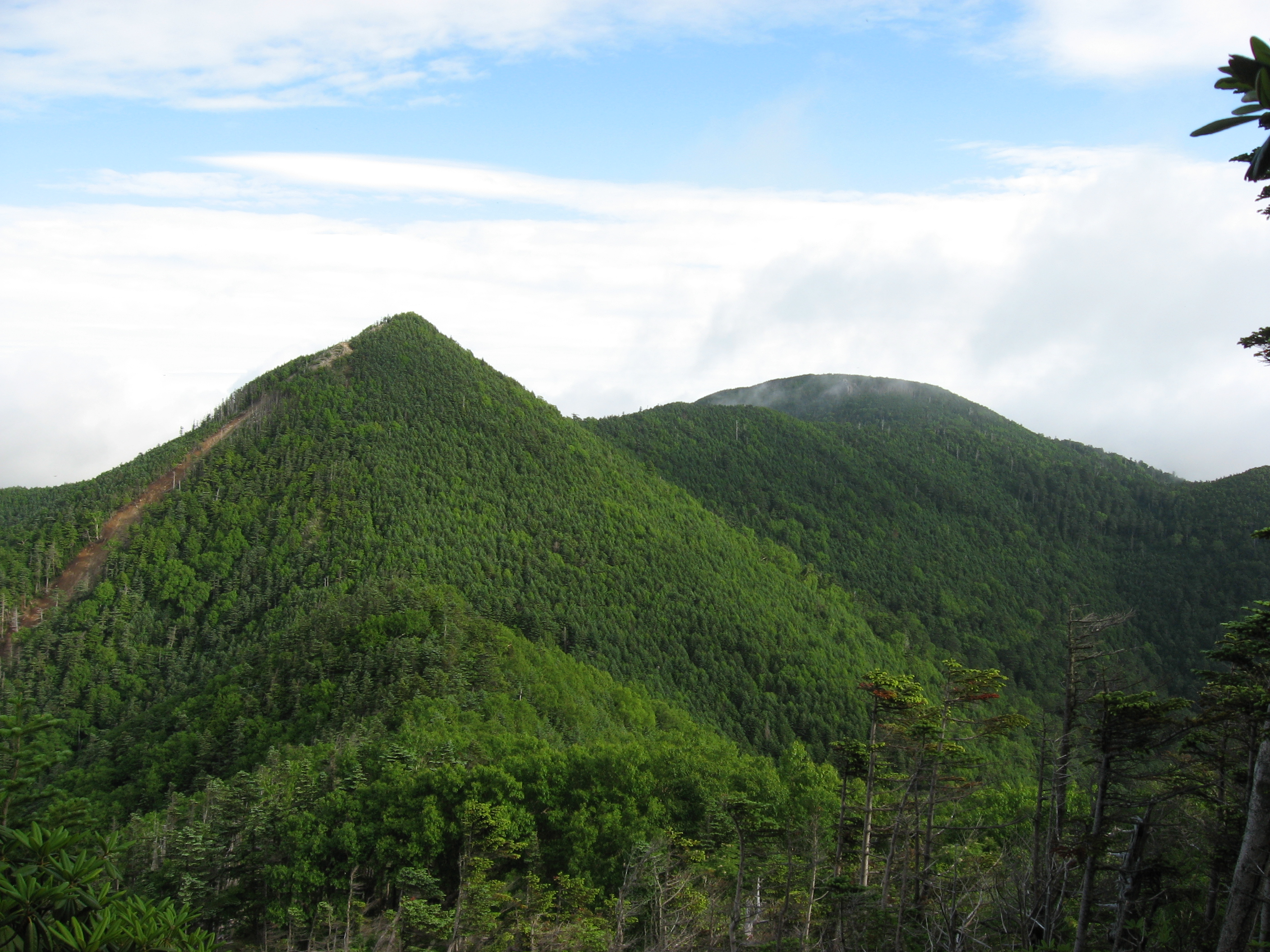 Mount Kobushi (Kobushi-ga-take, left) and Mount Sanpo (Sanpo-zan, right) as seen from west side of Mount Tokusa (Tokusa-yama) in the Okuchichibu Mountains, Japan